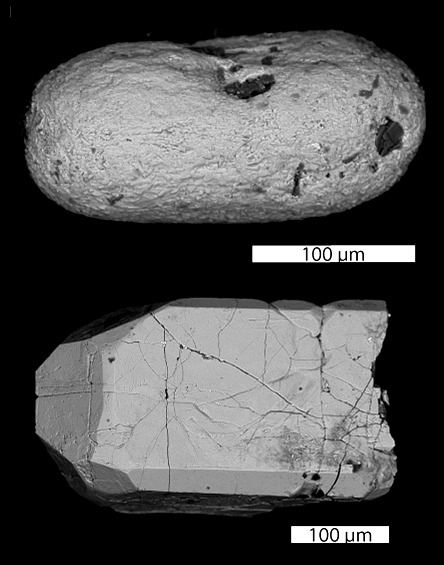 Backscatter electron micrograph of detrital zircons from the Archaean metasediments of the Jack Hills, Yilgarn Craton, Western Australia. The upper one is strongly rounded by abrasion (anhedral morphology) whereas the lower one shows most of the original crystal facets (euhedral morphology).